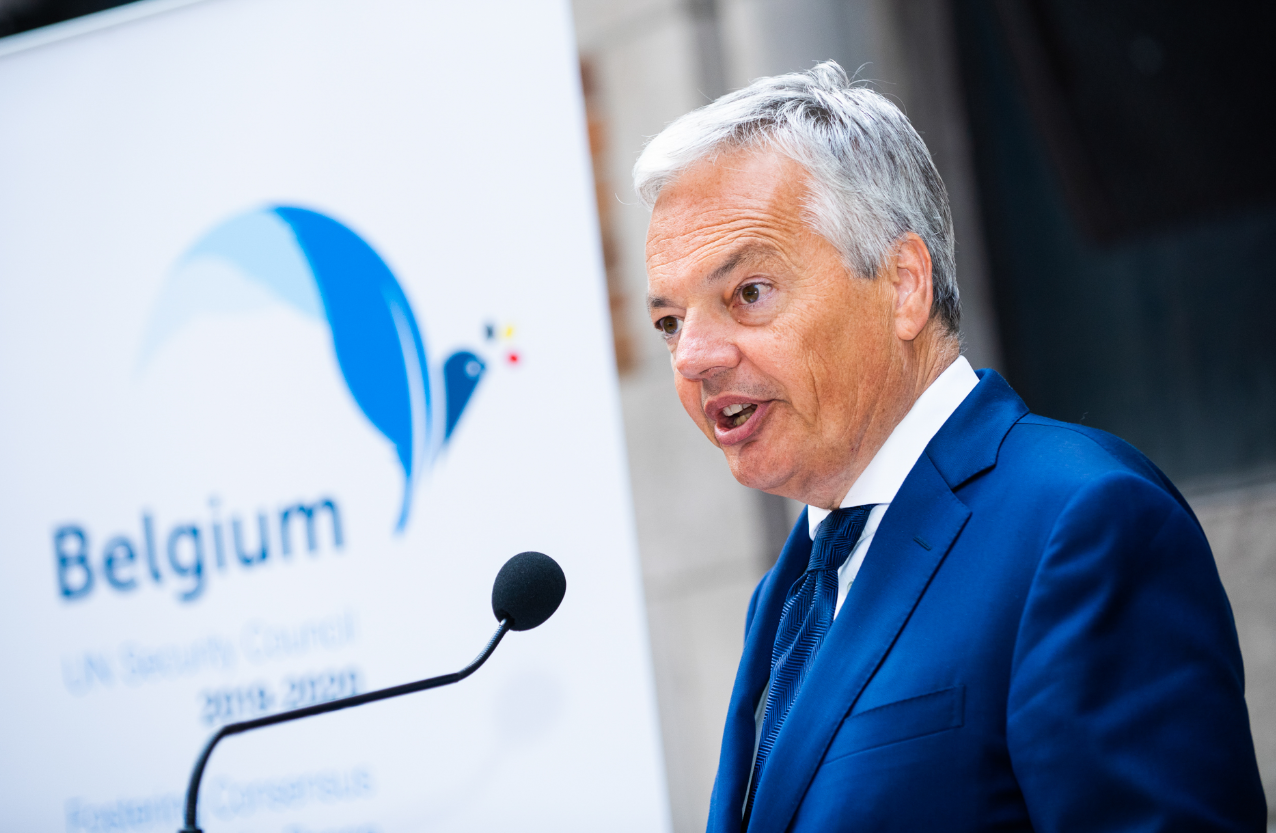 Belgian Minister for Foreign Affairs, Didier Reynders, campaigning for a non-permanent seat at the United Nations Security Council, 2018